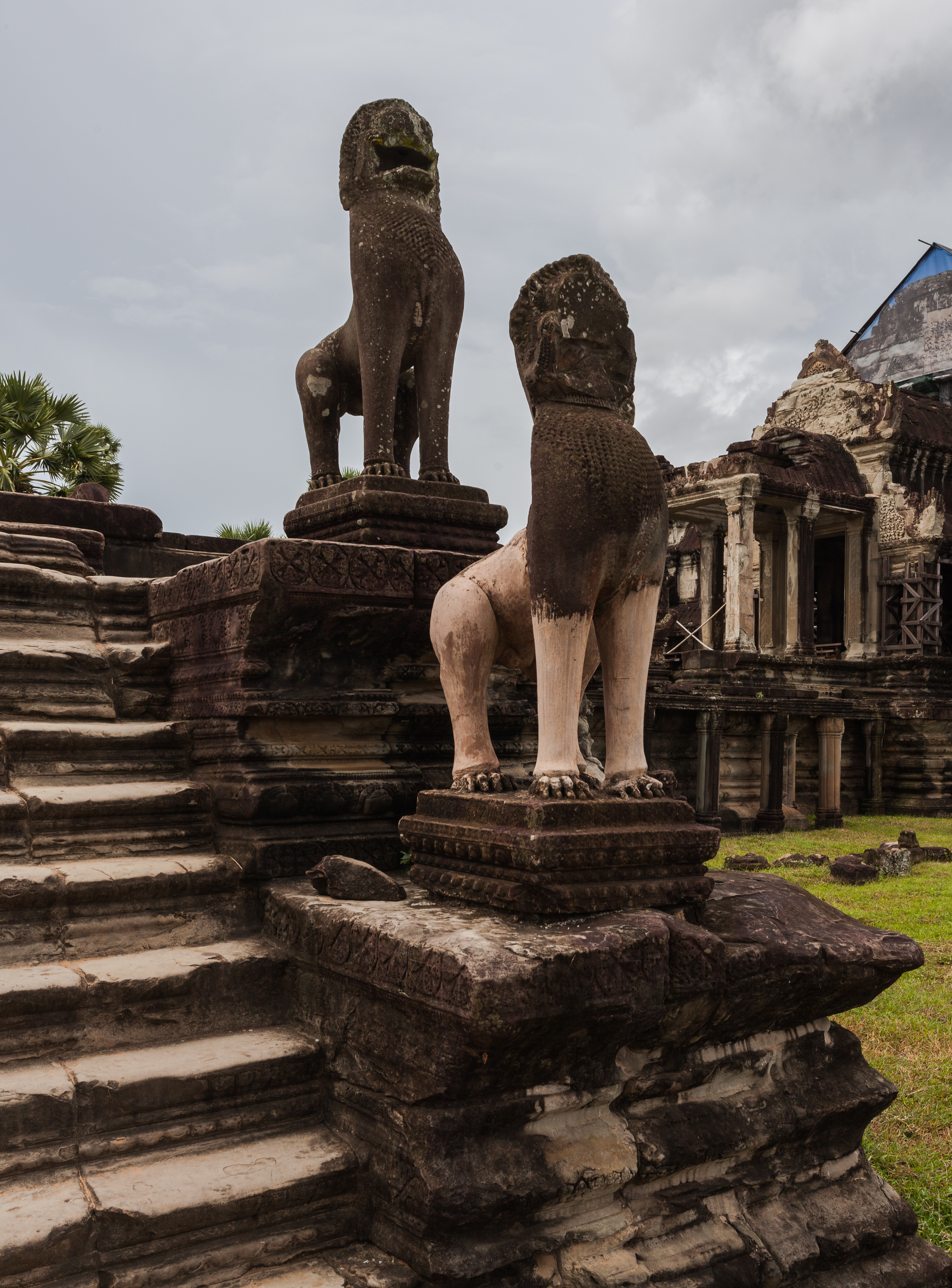 Angkor Wat, Cambodia